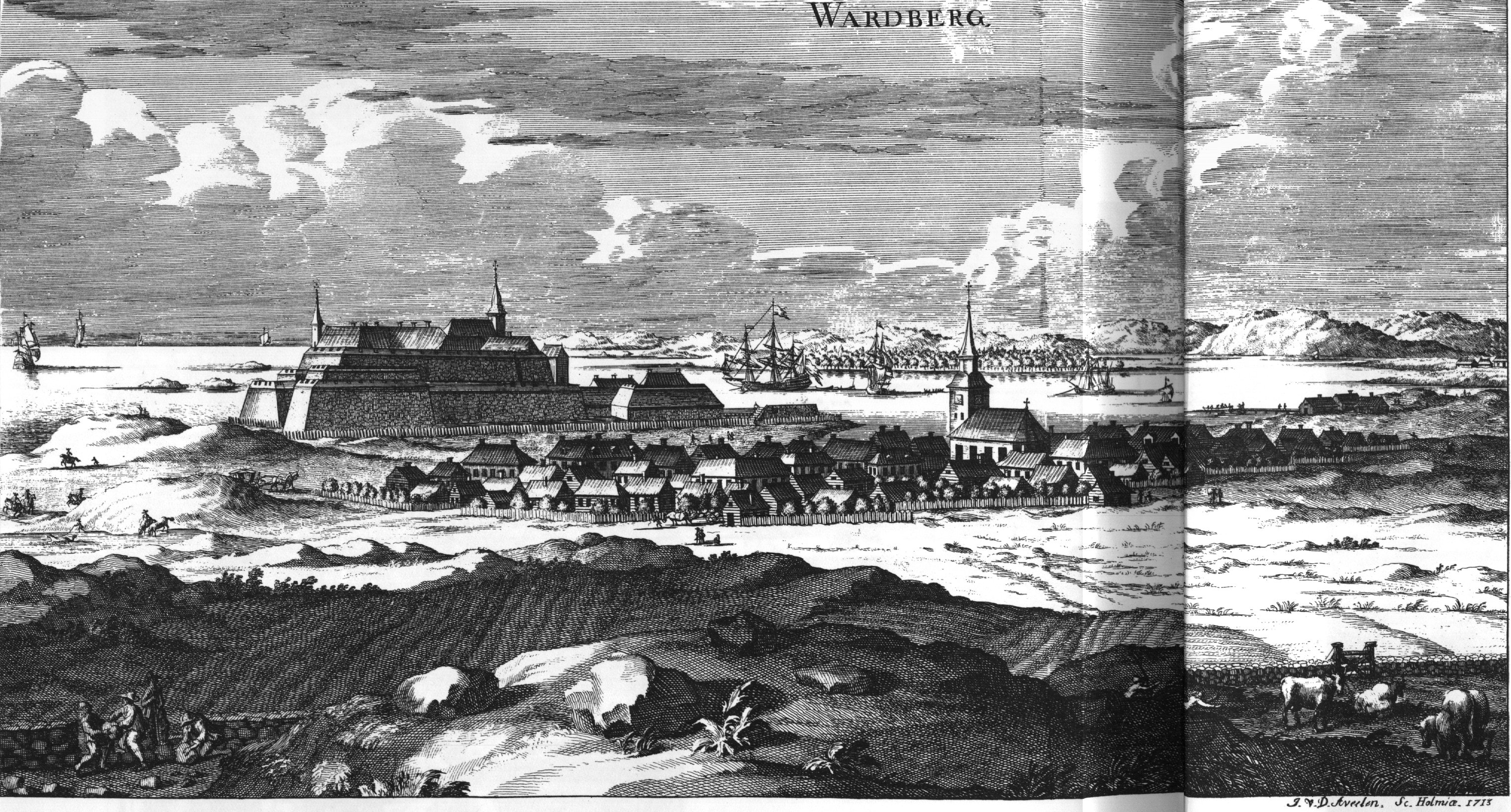 The city of Varberg in Sweden. 256 color black&white jpg. 200 dpi. My apologize for the page break.